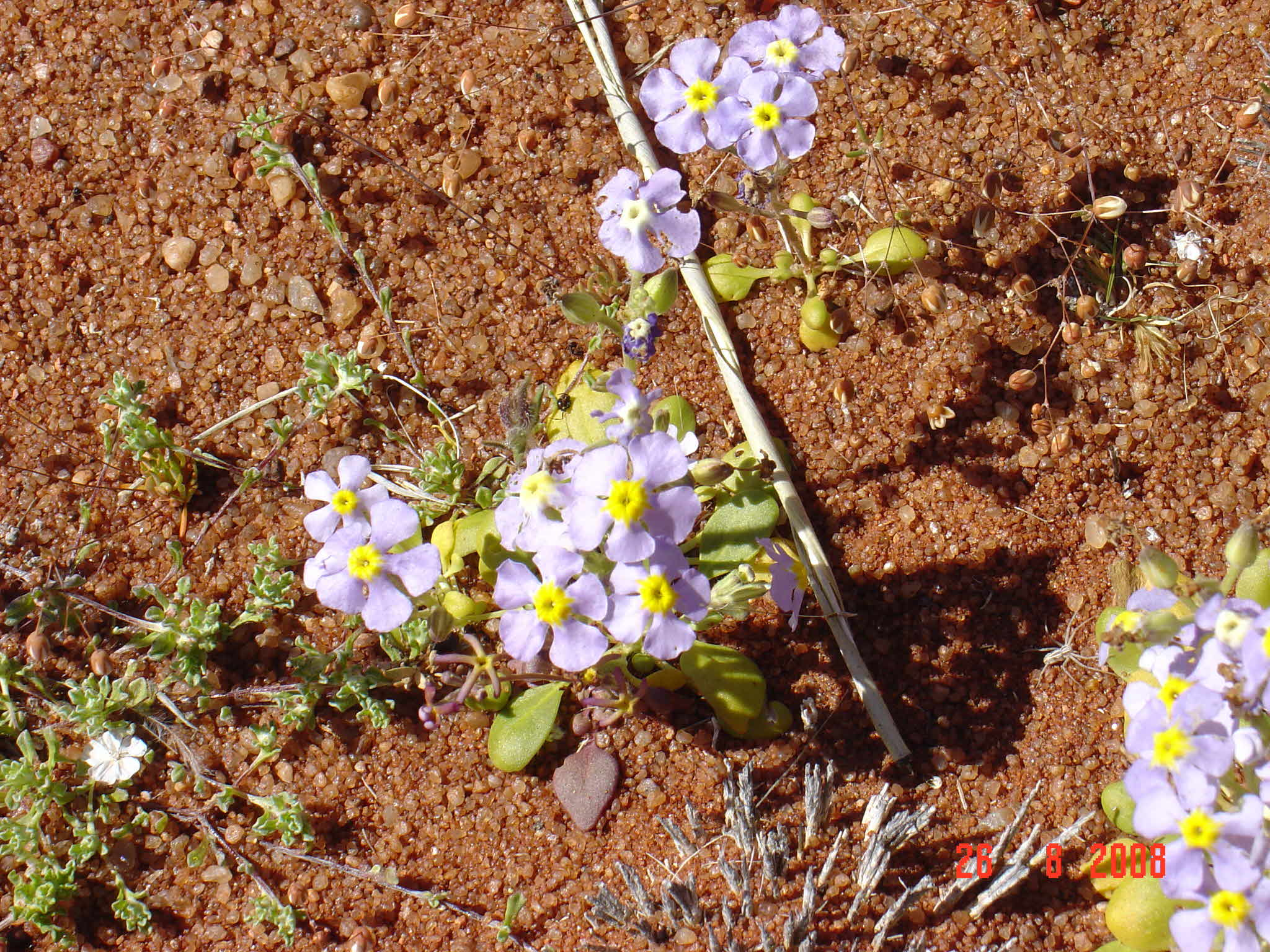 A member of the family Scrophulariaceae, a tiny Zaluzianskya species occurring in the very arid area, Vaalputs, a radioactive waste repository in South Africa.